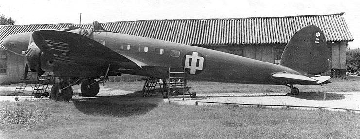 Heinkel He-111A belonging to the Central Air Transport Corporation (CATC). Original CAF number #1902, last survivor of the eight He-111As bought from Germany, its weapons were removed and transfered to CATC on 25 February 1943, crashed in Kunming on 23 December 1944, during a test fly after refit with P&W engines.